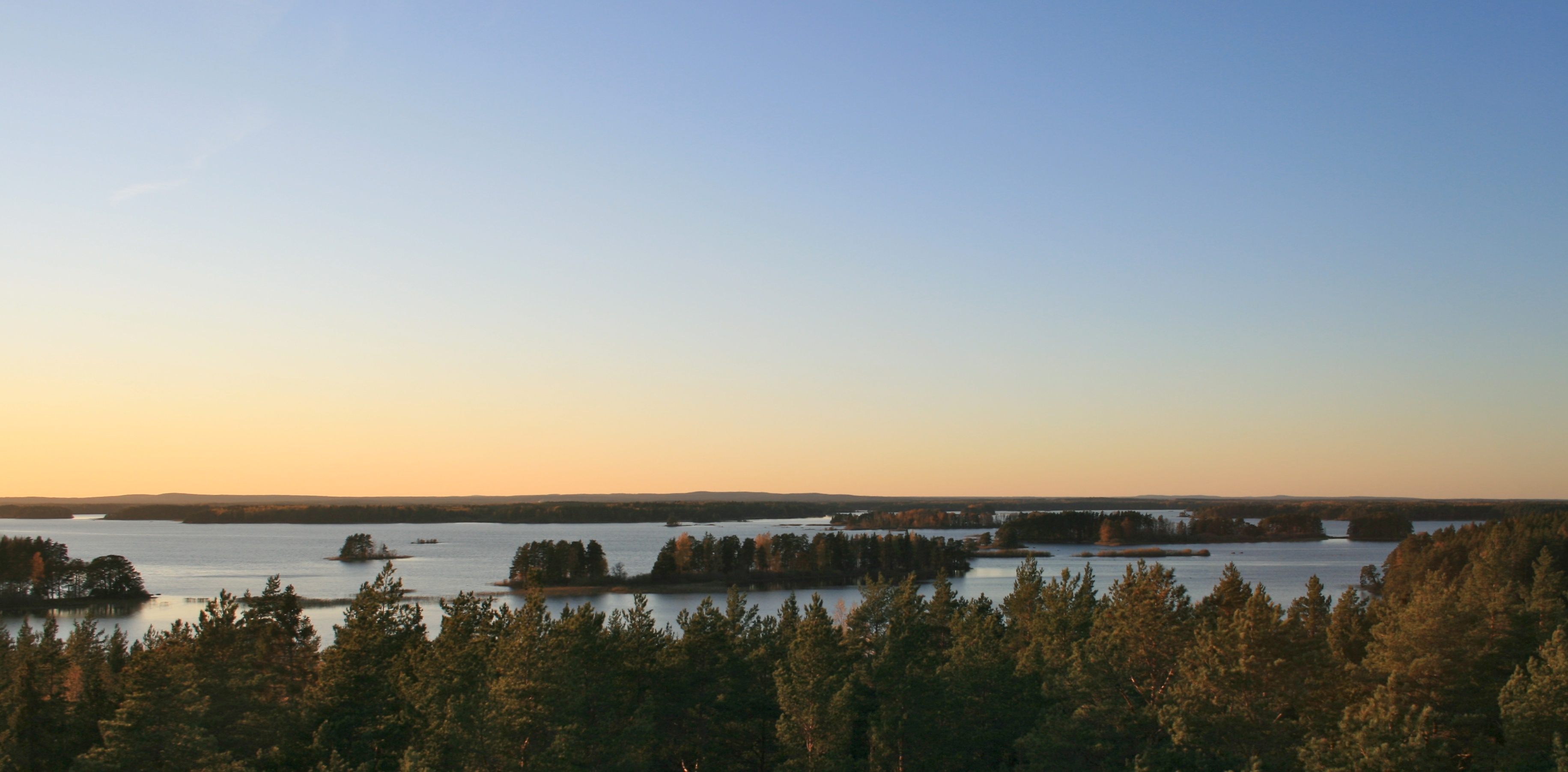 View from Skekarsbo tower, Färnebofjärden national park